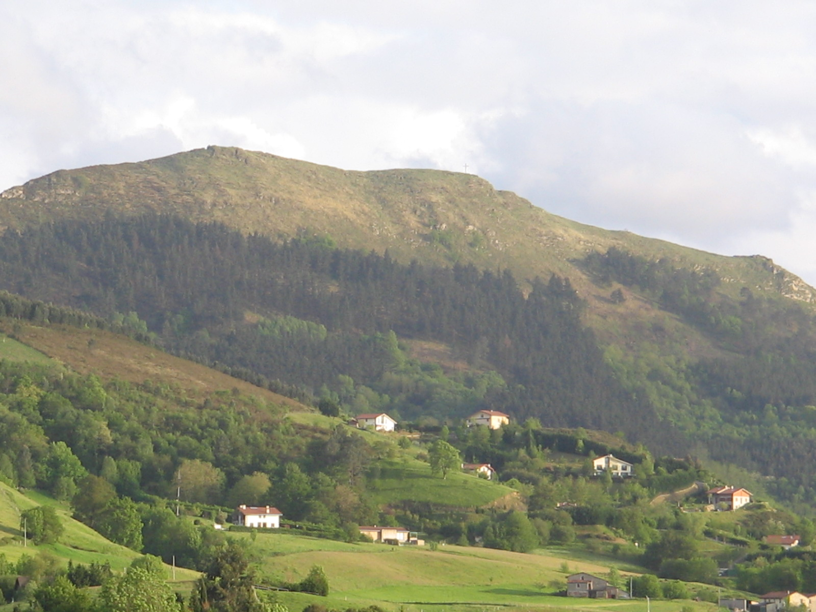 View of mount Buruntza's north-west face